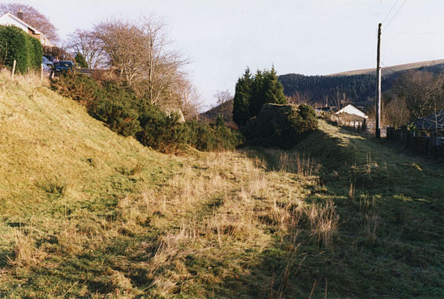 Llangurig station site The northern part of the Manchester & Milford Railway was built from near Llanidloes to this point, passing through the cutting seen ahead, and continuing about half a mile further. When the railway gave up its plans to cross the Cambrian Mountains, it was left to rot and eventually dismantled. In 1925 the GWR which had by then acquired the M&MR looked into reinstating the line as a branch, only to find that it itself had disposed of the land some years earlier.